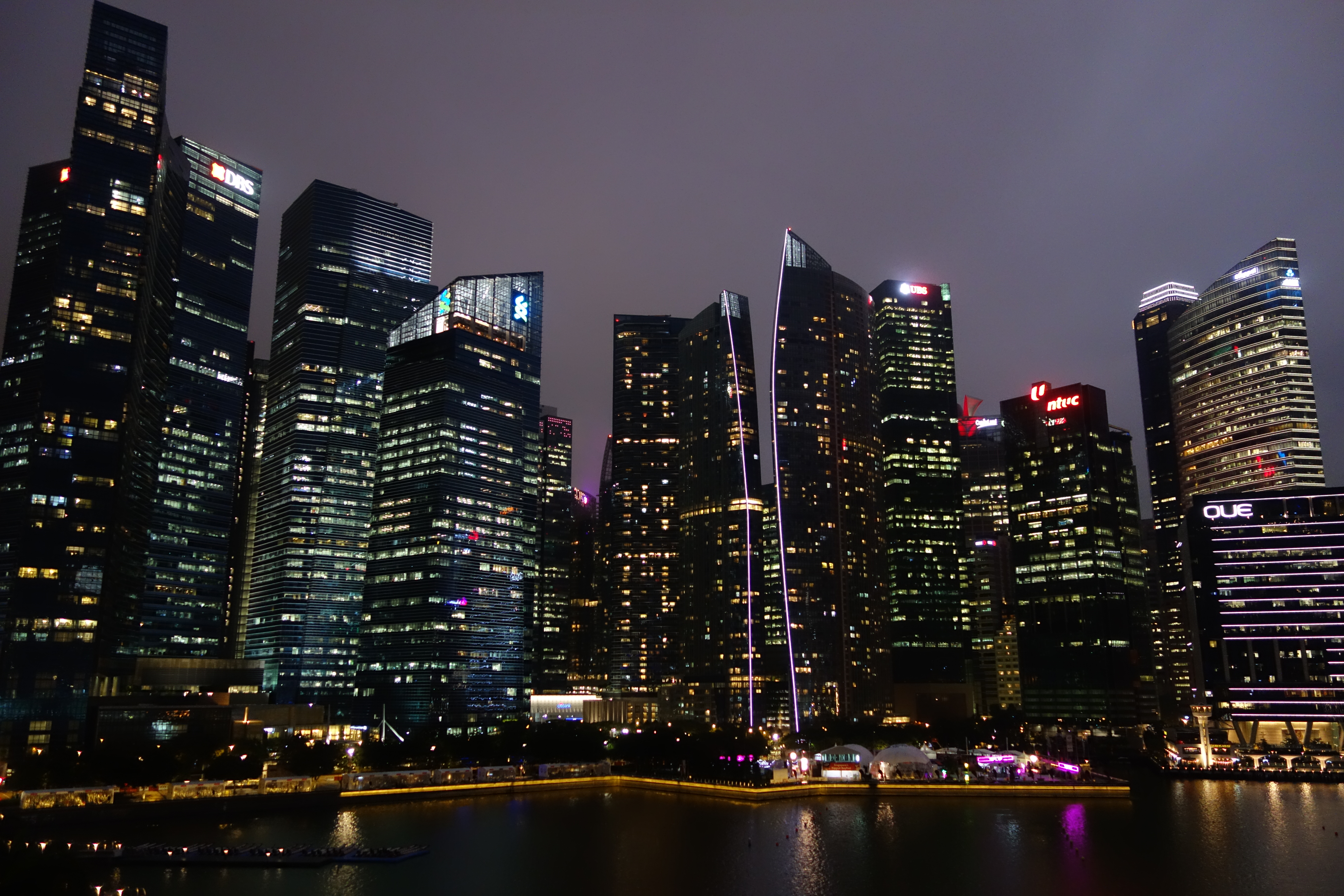 Night view of Collyer Quay skyline from Marine Bay Sands.